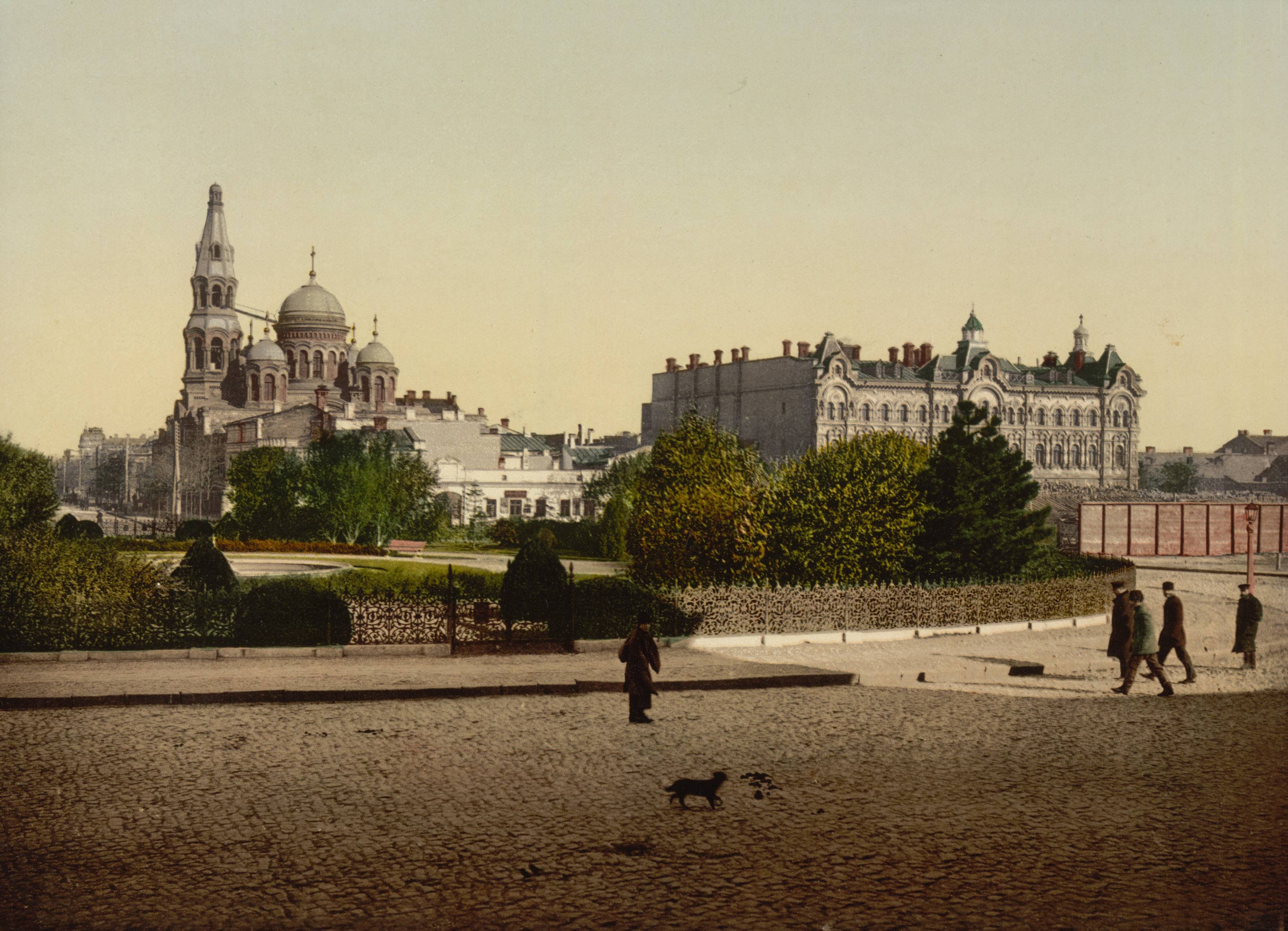 Turemnaja Place, Odessa, Russia, (i.e., Ukraine)